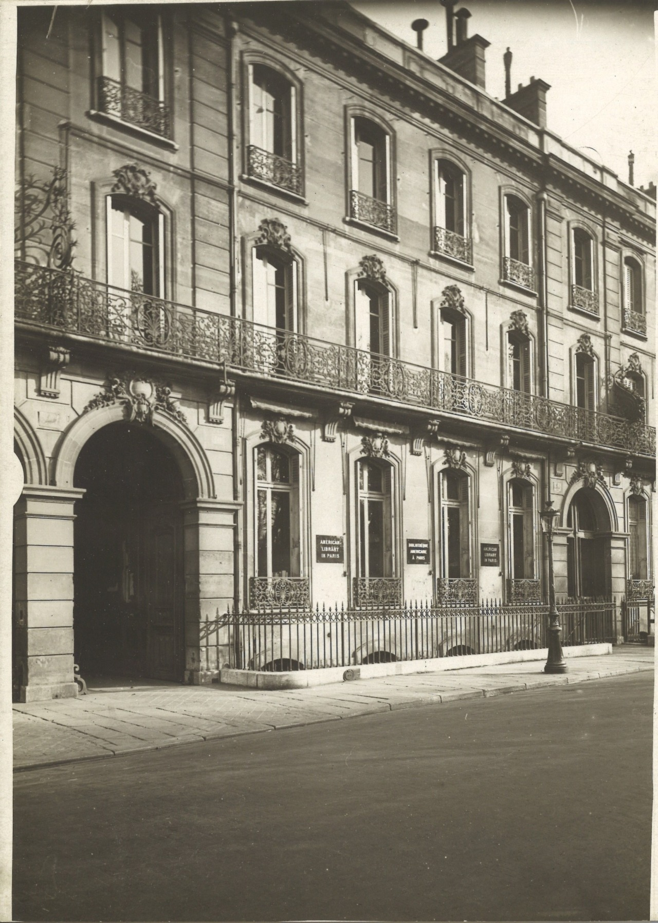 Old Library Location